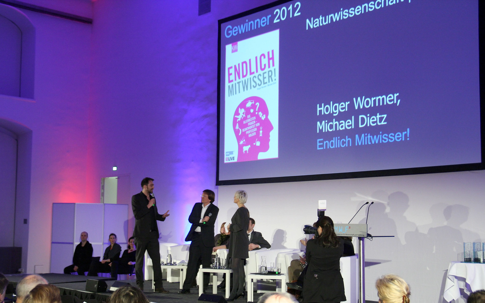 Award ceremony for the Science book of the Year, category "Natural science and technic": Michael Dietz and Holger Wormer for "Endlich Mitwisser!" (Aula der Wissenschaften, Vienna).